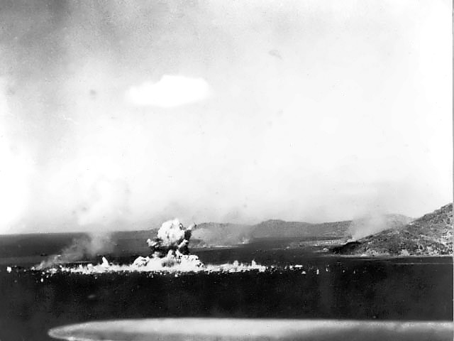 Japanese ammunition ship Aikoku Maru explodes following a torpedo attack by a US carrier based plane. The pilot and two crewmembers of this plane are presumed to be lost since their plane were caught in this terrific explosion. 17 February 1944.